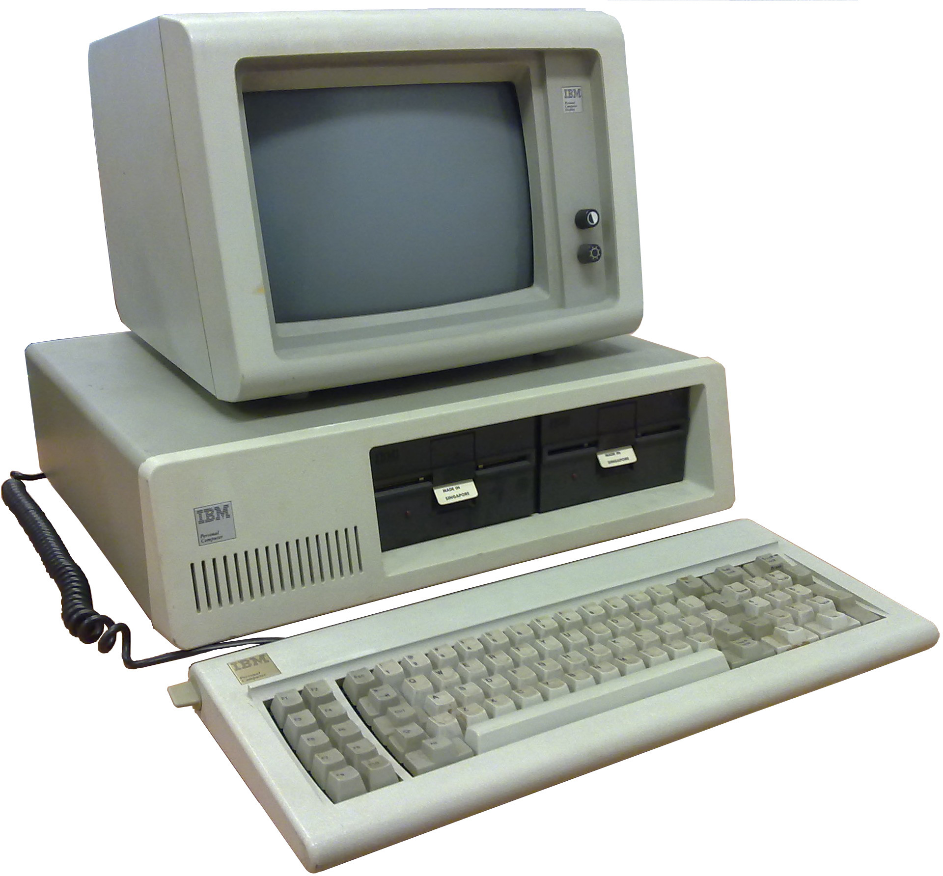 IBM Personal Computer model 5150 with monochrome phosphor monitor (model number 5151) and IBM PC keyboard.